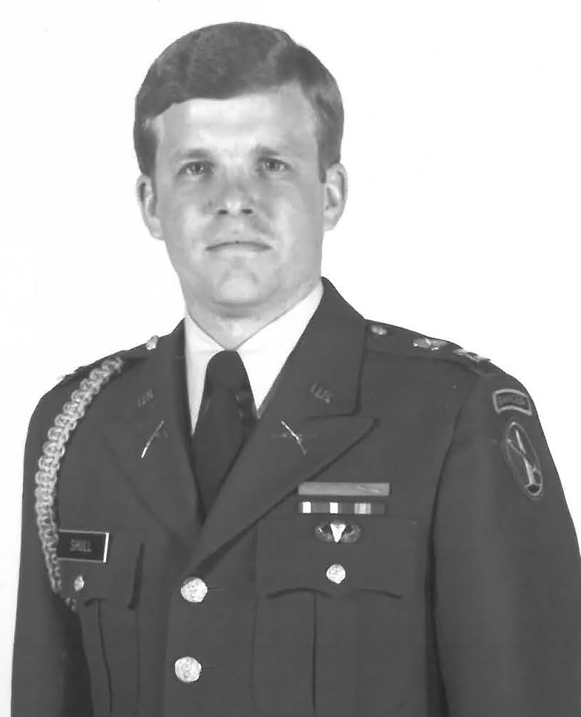 Tom Shull military photo